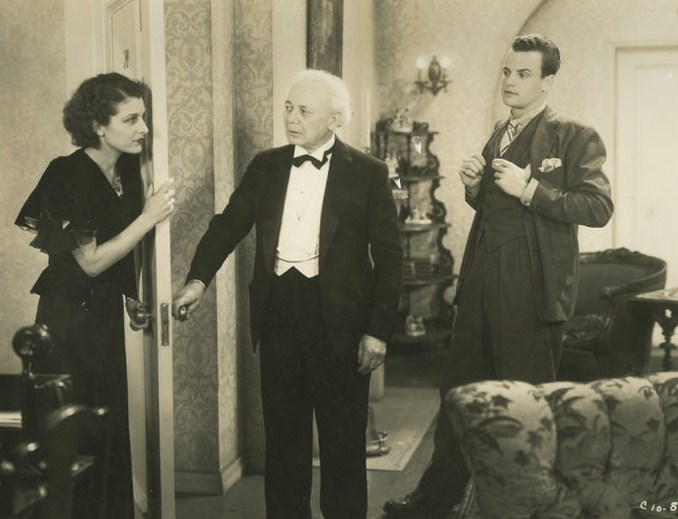 L. to R. : Evelyn Brent, Al Shean & John Darrow in Symphony of Living - publicity still (cropped)